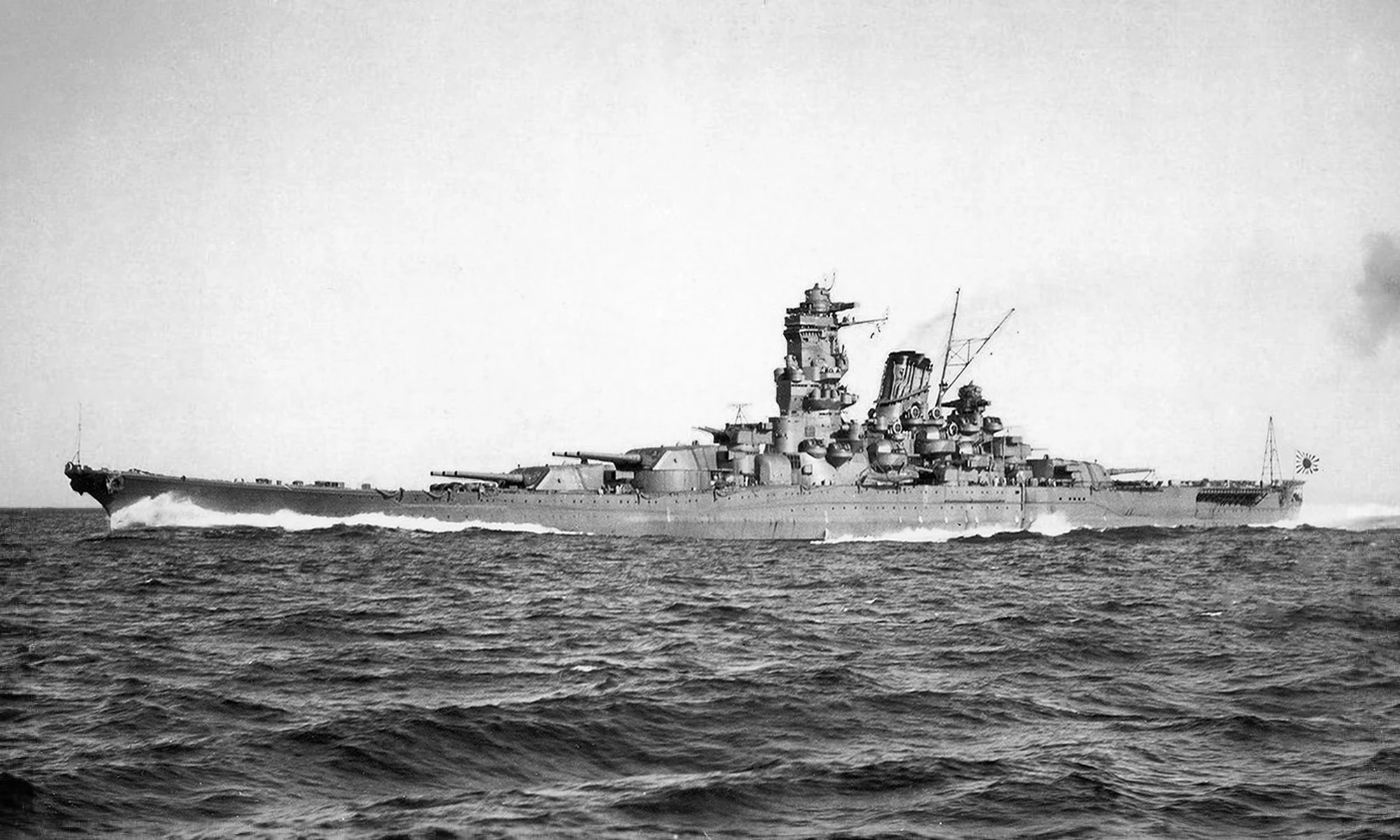 Imperial Japanese Navy's battle ship, Yamato running full-power trials in Sukumo Bay, 1941